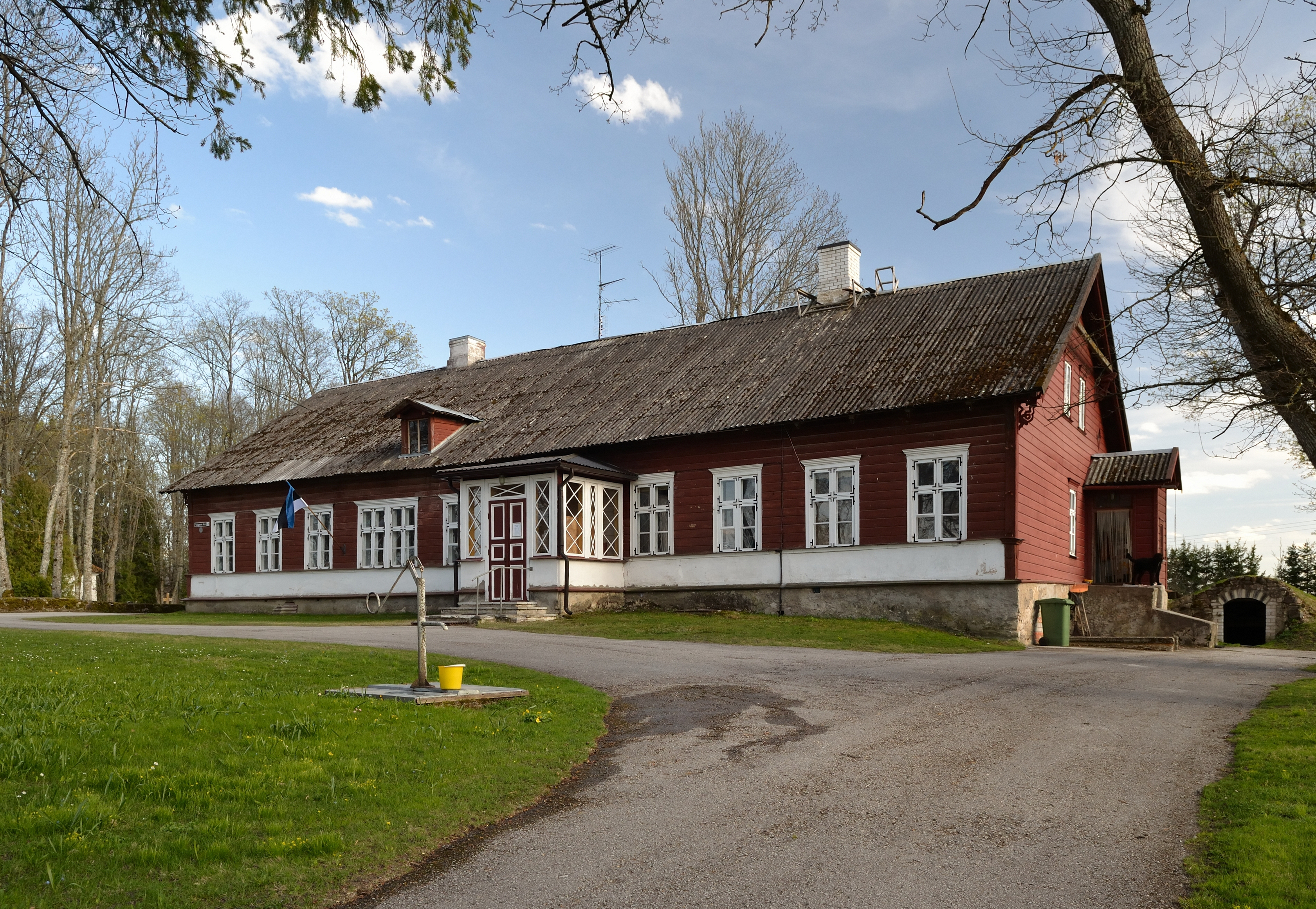 Ambla rectory main building